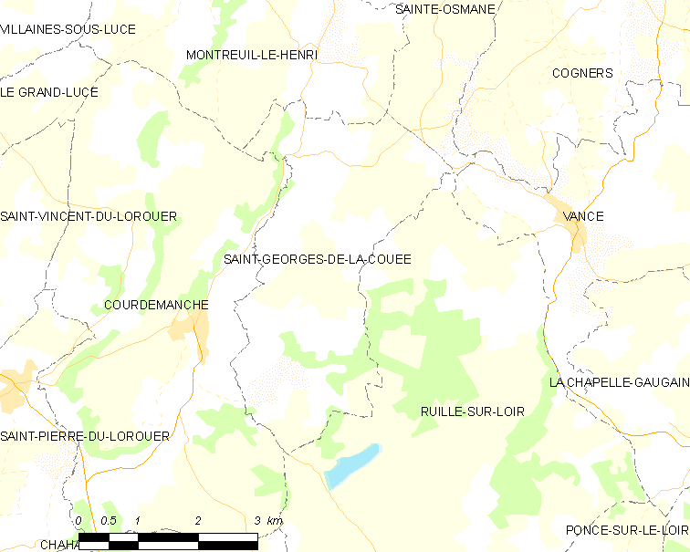 Map of French municipality